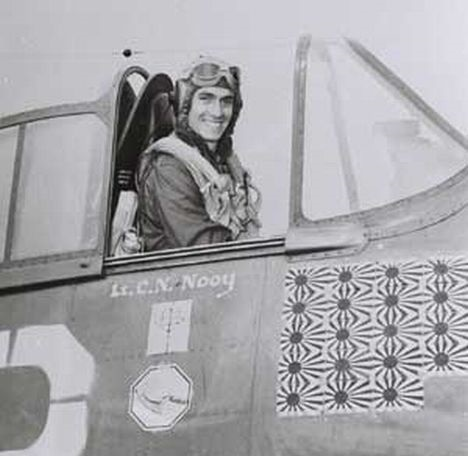 U.S. Navy pilot Cornelius Nicholas Nooy displaying his final score of 19 enemy aircraft destroyed. Nooy served two tours with Fighting Squadron 31 (VF-31), first aboard the light aircraft carrier USS Cabot (CVL-28) and later aboard USS Belleau Wood (CVL-24).